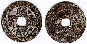 Chieu Thong Thong Bao, currency of the Chieu Thong period (1786-1789) of Vietnam